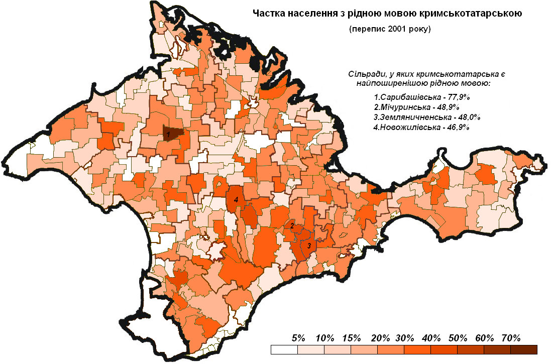 Share of population with Crimean Tatar language as native language according to 2001 census